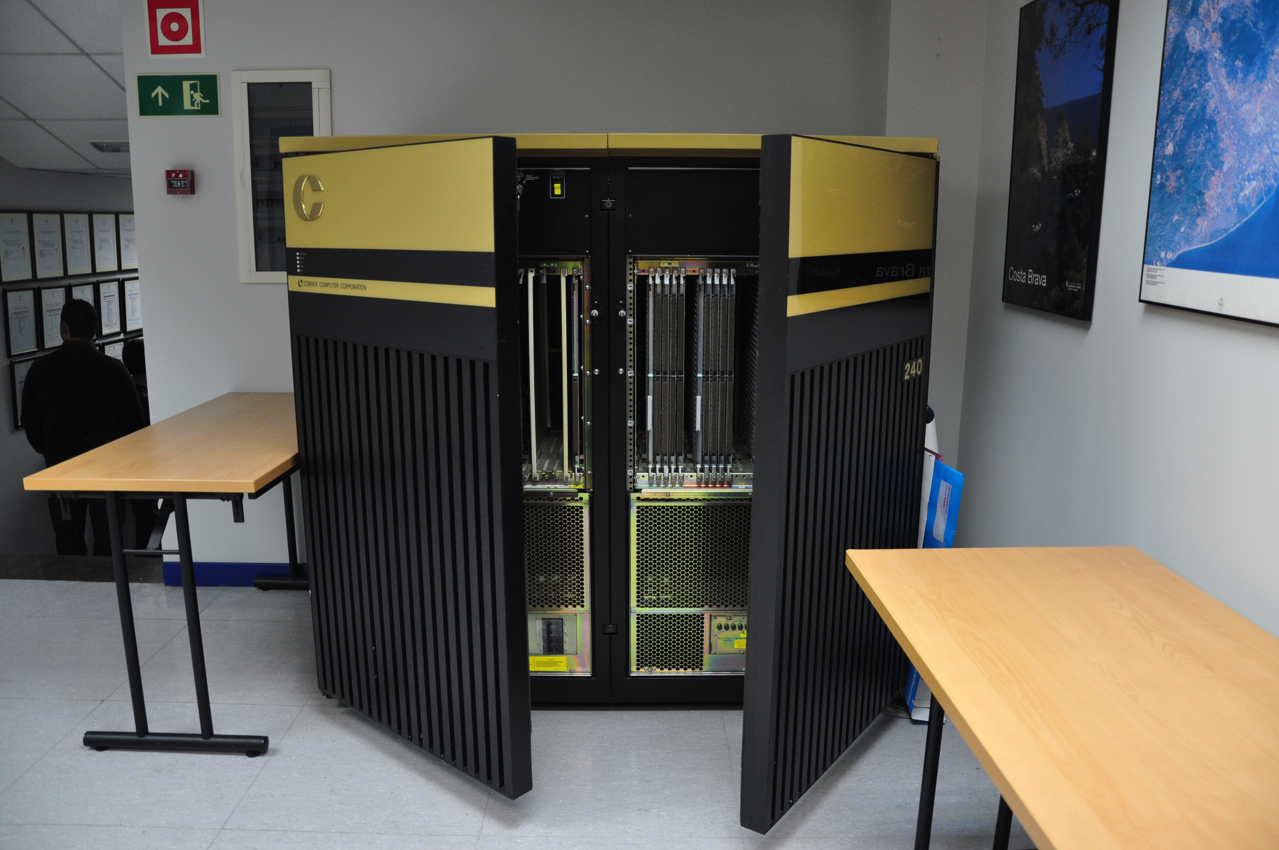 Convex 240 at Barcelona Supercomputing Center